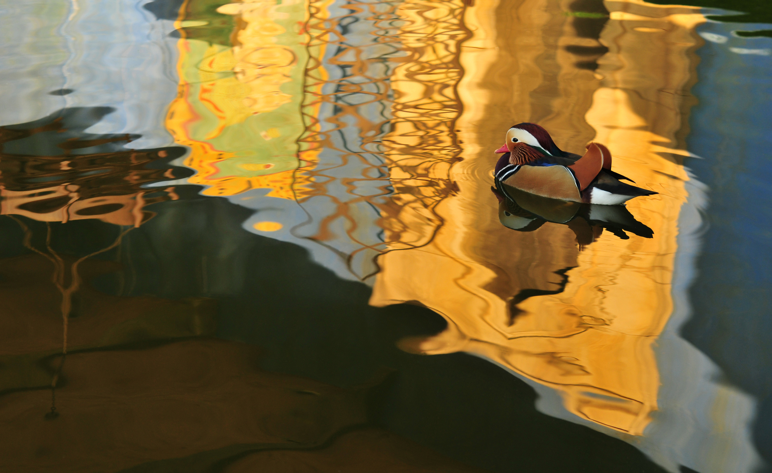 Reflection of Jungle Palace in Hanover Zoo with a male Mandarin Duck (Aix galericulata) at sunset.